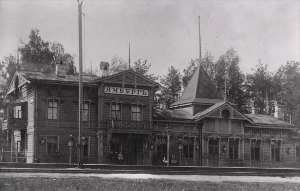 Railway station of Yamburg, Russia (Kingisepp since 1922).